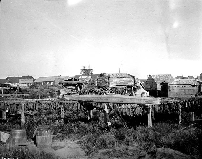 From John Cobb field notebook: Kogiung Village, Alaska . Shows bidarkas stored on top of fish drying racks Subjects (LCTGM): Eskimos--Structures; Eskimos--Subsistance activities; Houses--Alaska--Koggiung Subjects (LCSH): Koggiung (Alaska); Fish drying--Alaska--Koggiung; Dwellings--Alaska--Koggiung; Bidarkas--Alaska--Koggiung; Eskimos--Transportation